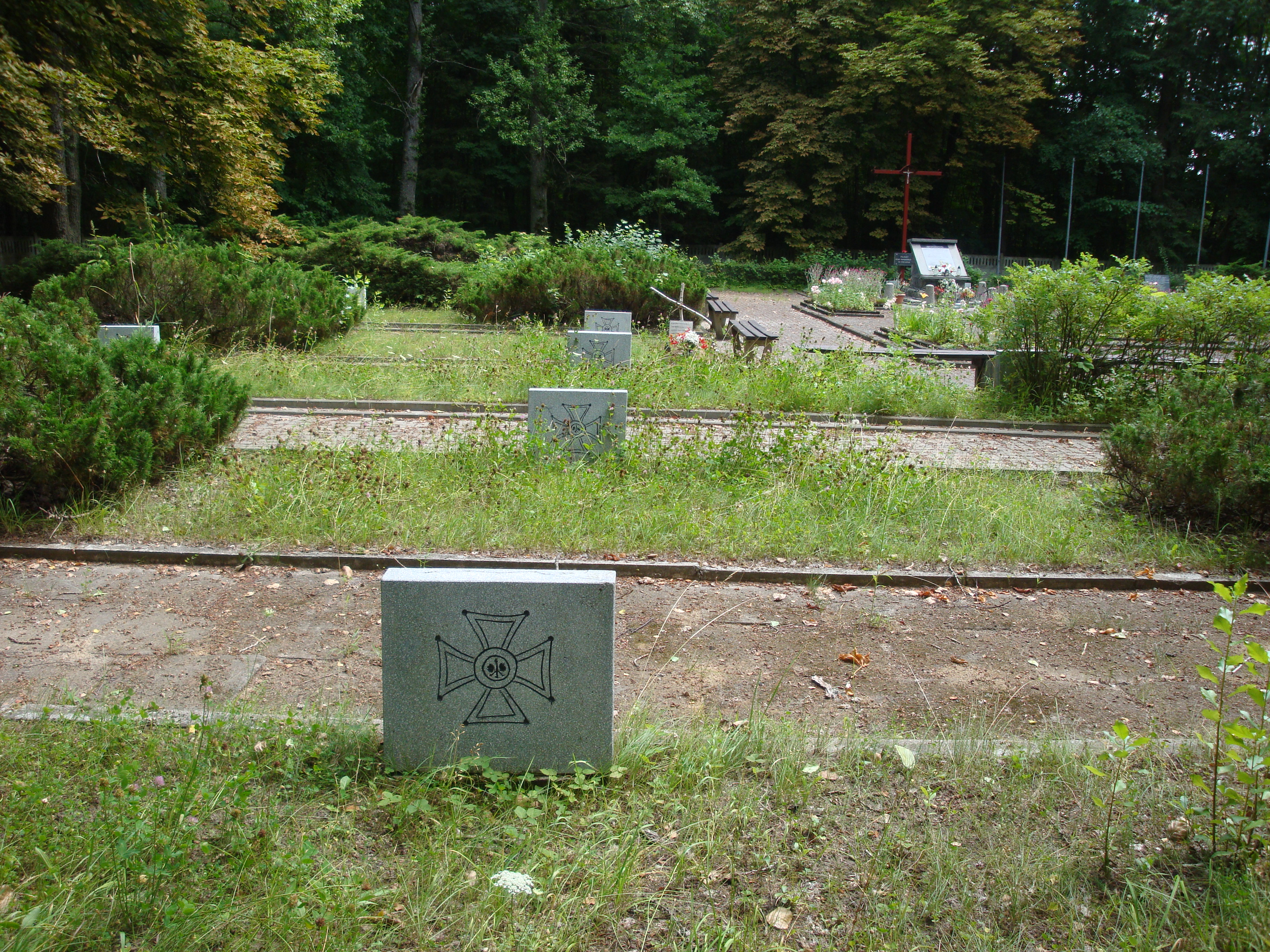 Cemetery near village Krępa Kaszubska, where about 800 prisoners of Stutthof concentration camp, victims of Death March are buried.